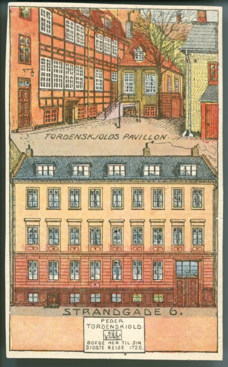 Print commemorating Tordenskjold's association with Strandgade 6 in Christianshavn, Copenhagen, Denmark